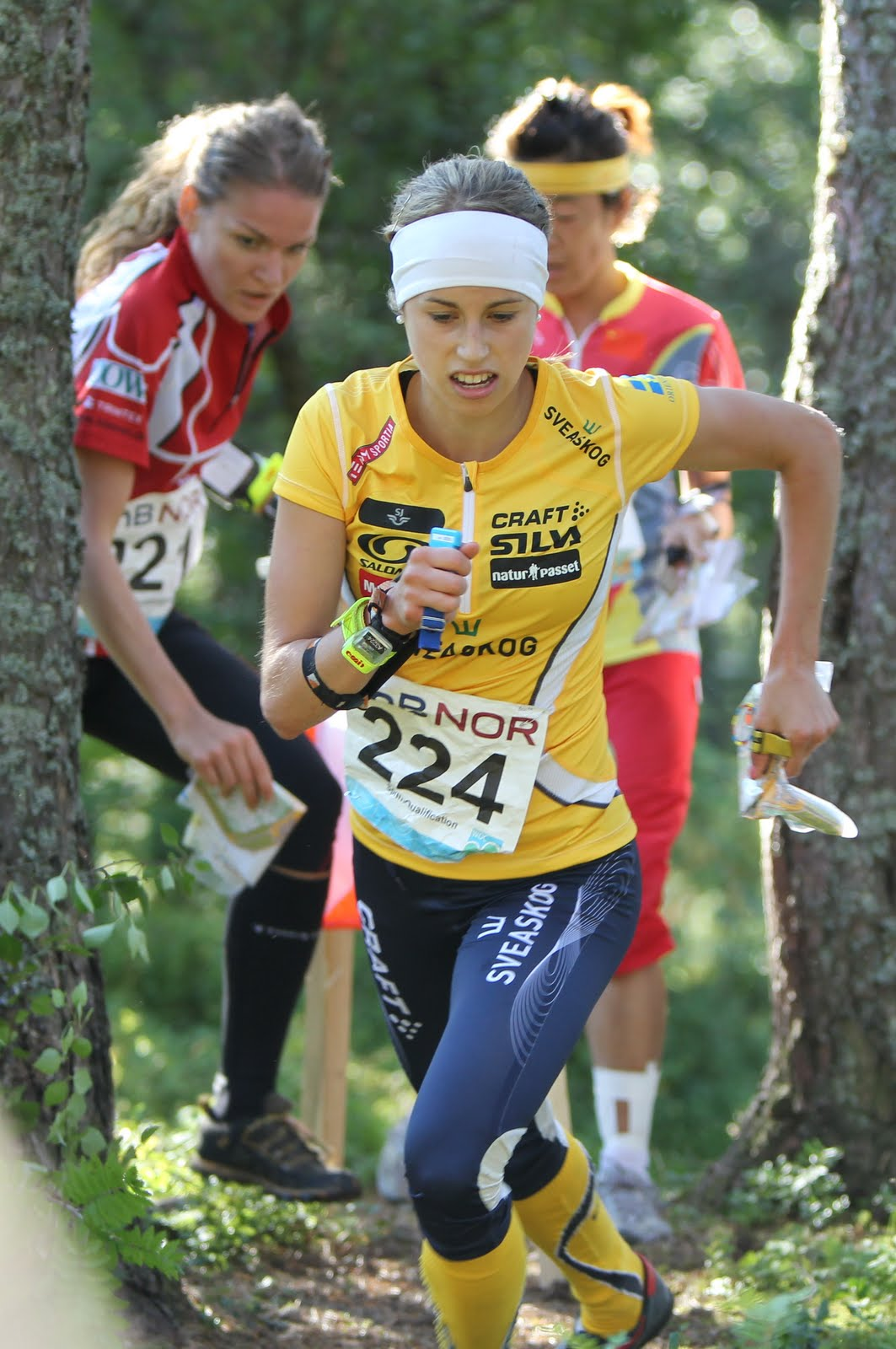 Beata Falk at World Orienteering Championships 2010 in Trondheim, Norway